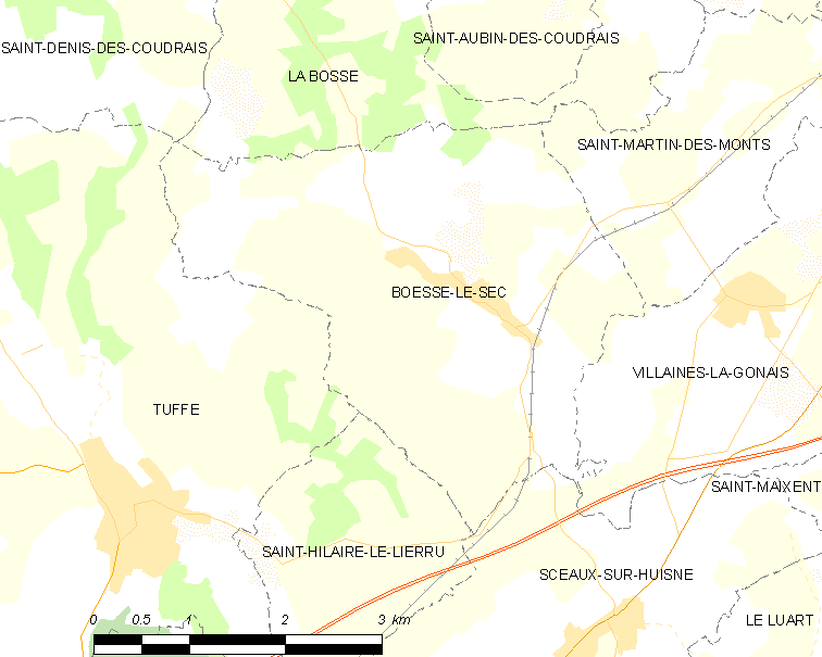 Map of French municipality